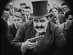 Still of Charles A. Post (1897 – 1952) in the film Back Stage (1919).